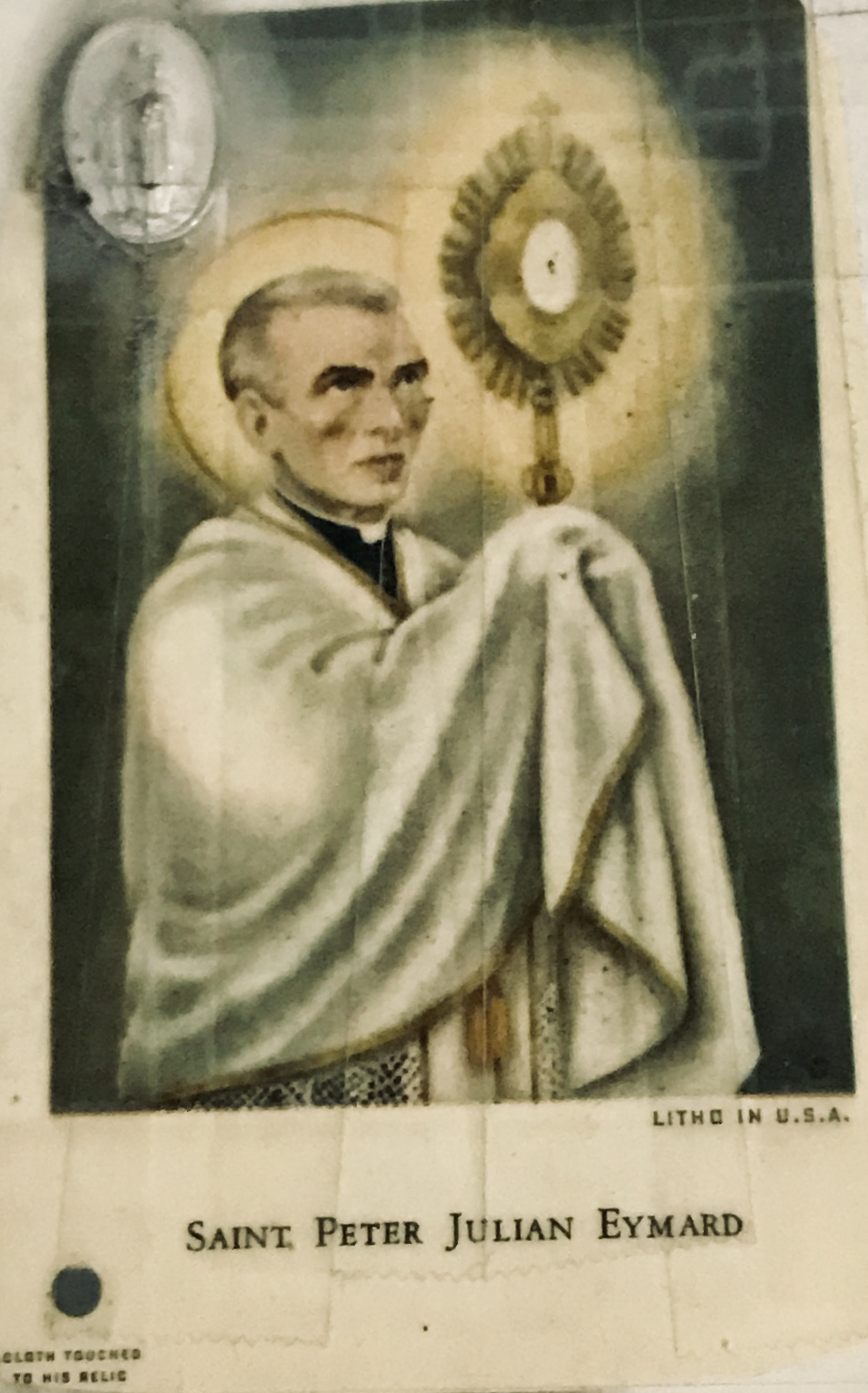 Saint Peter Julian Eymard 3rd class relic prayer card